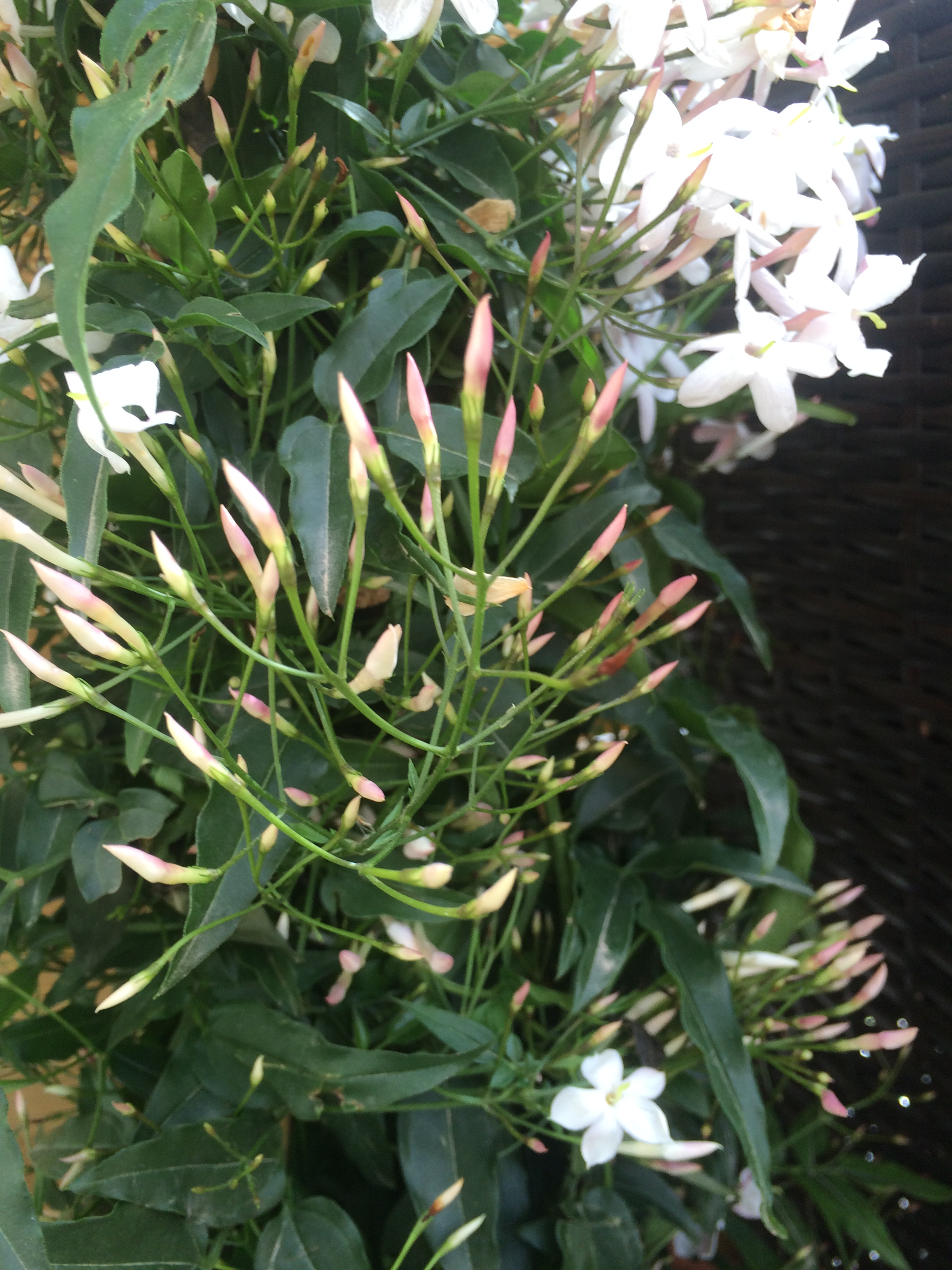 Jasminum polyanthum